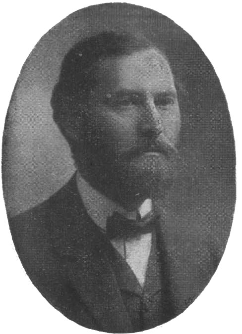 Karel Babánek (1872–1937), Czech writer, poet and dramatist